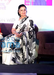 Sushma Seth at Grahlaxmi organized world's biggest kitty party in New Delhi